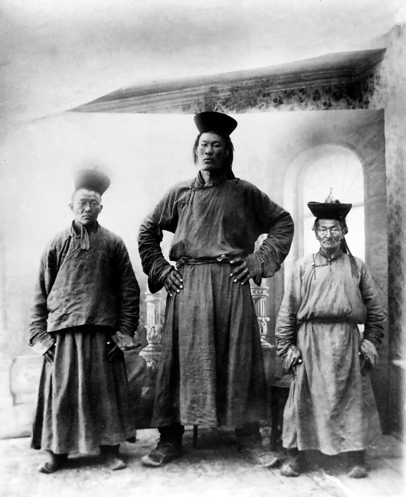 Öndör Gongor, a very tall man in Mongolia in the early 20th century.